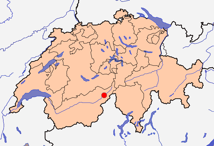 Location of the 2010 Fiesch derailment near Fiesch, Switzerland